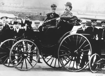 Bertha Benz with her husband Carl Benz in a Benz-Viktoria, model 1894